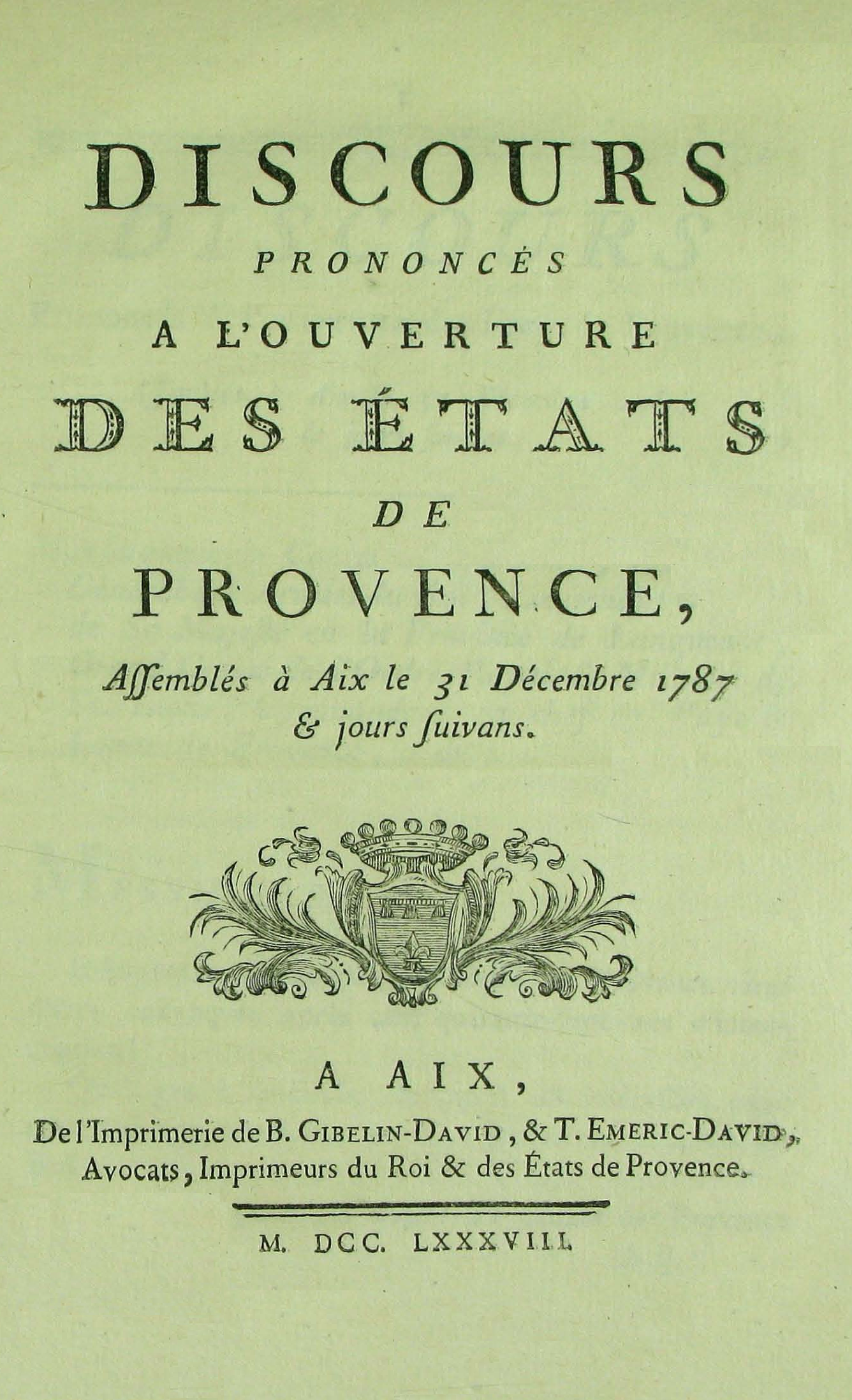 Speeches pronounced at the opening of the Estates of Provence, assembled in Aix-en-Provence on December 31, 1787, France. First page of the book published in Aix in 1788.